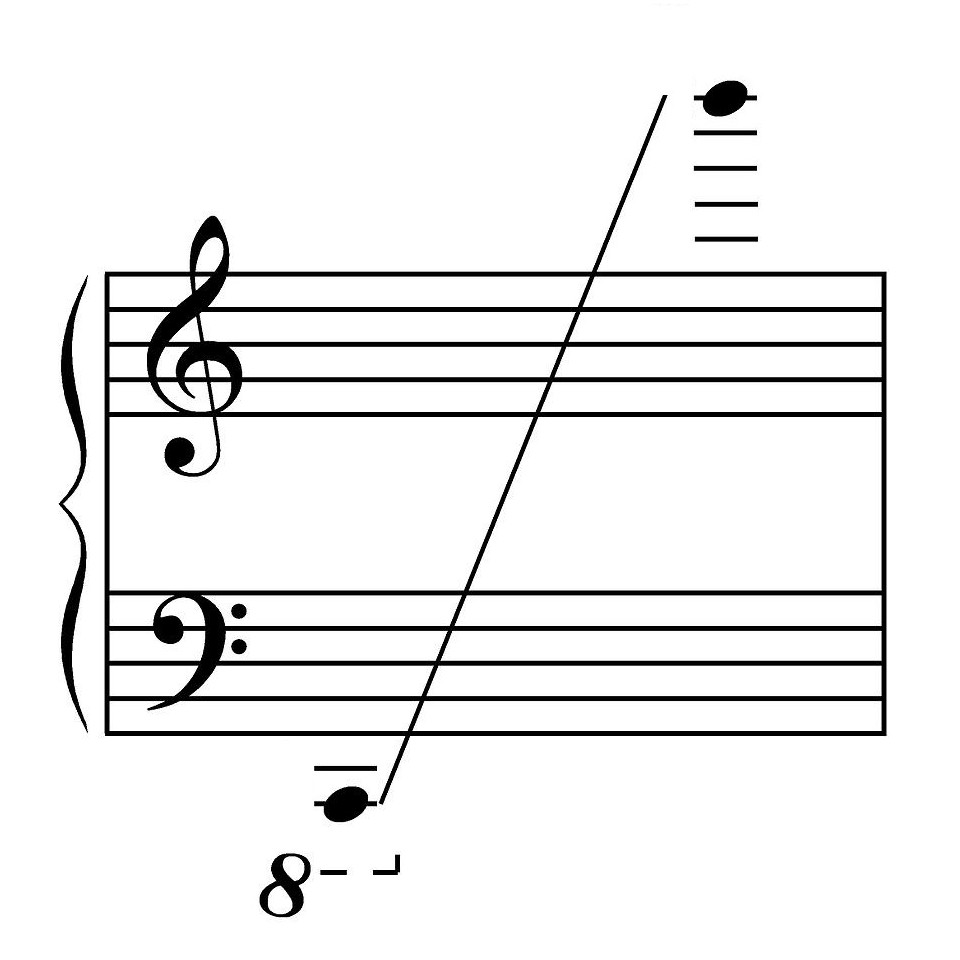 Written Range of Ondes Martenot 中文（香港）: 馬特諾琴的記譜音域